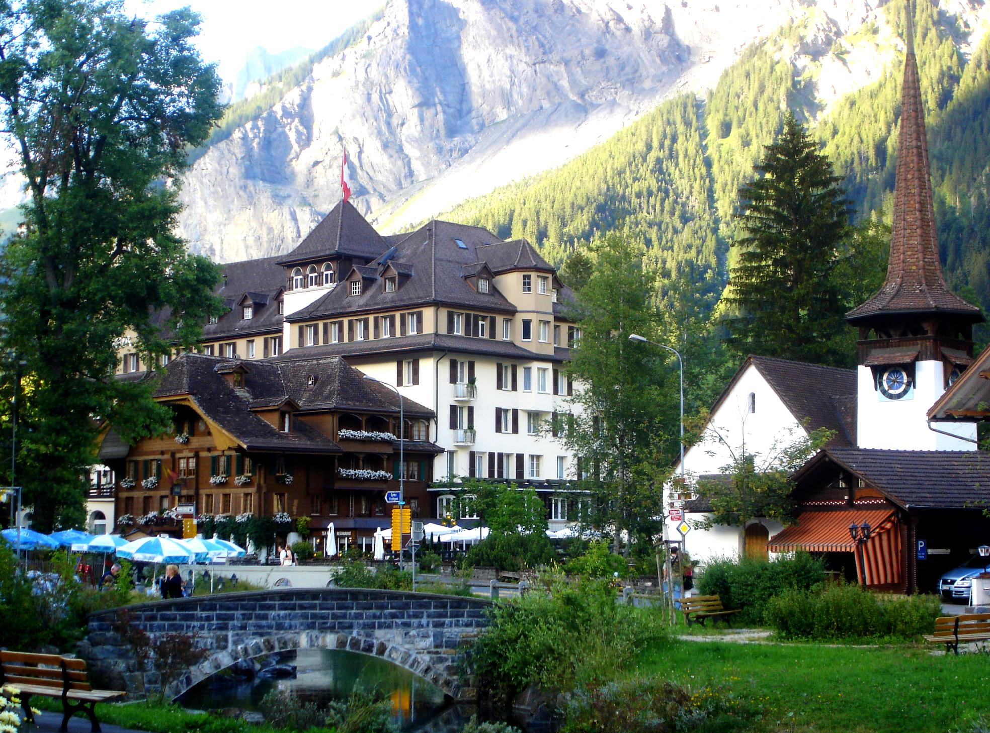 Kandersteg, village in the Bernese Oberland, Switzerland